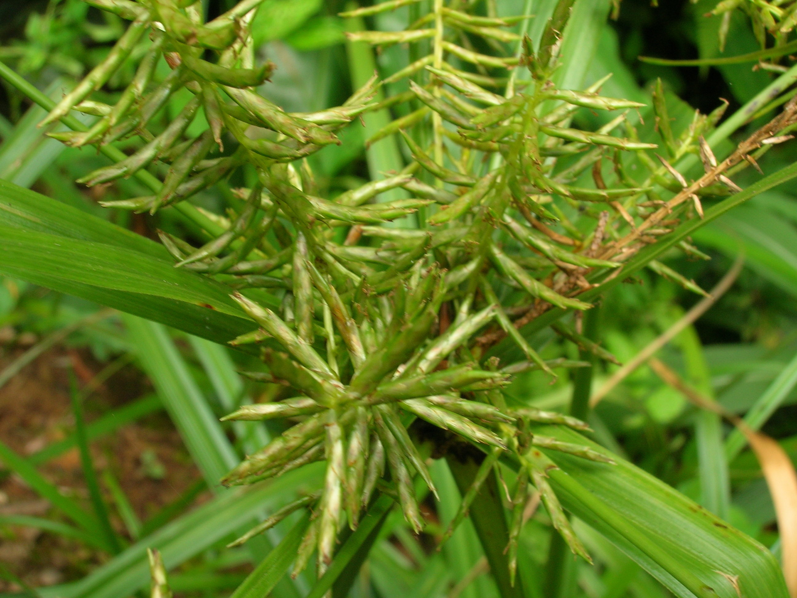 Cyperus hypochlorus var. hypochlorus (spikelets). Location: Maui, Makawao Forest Reserve